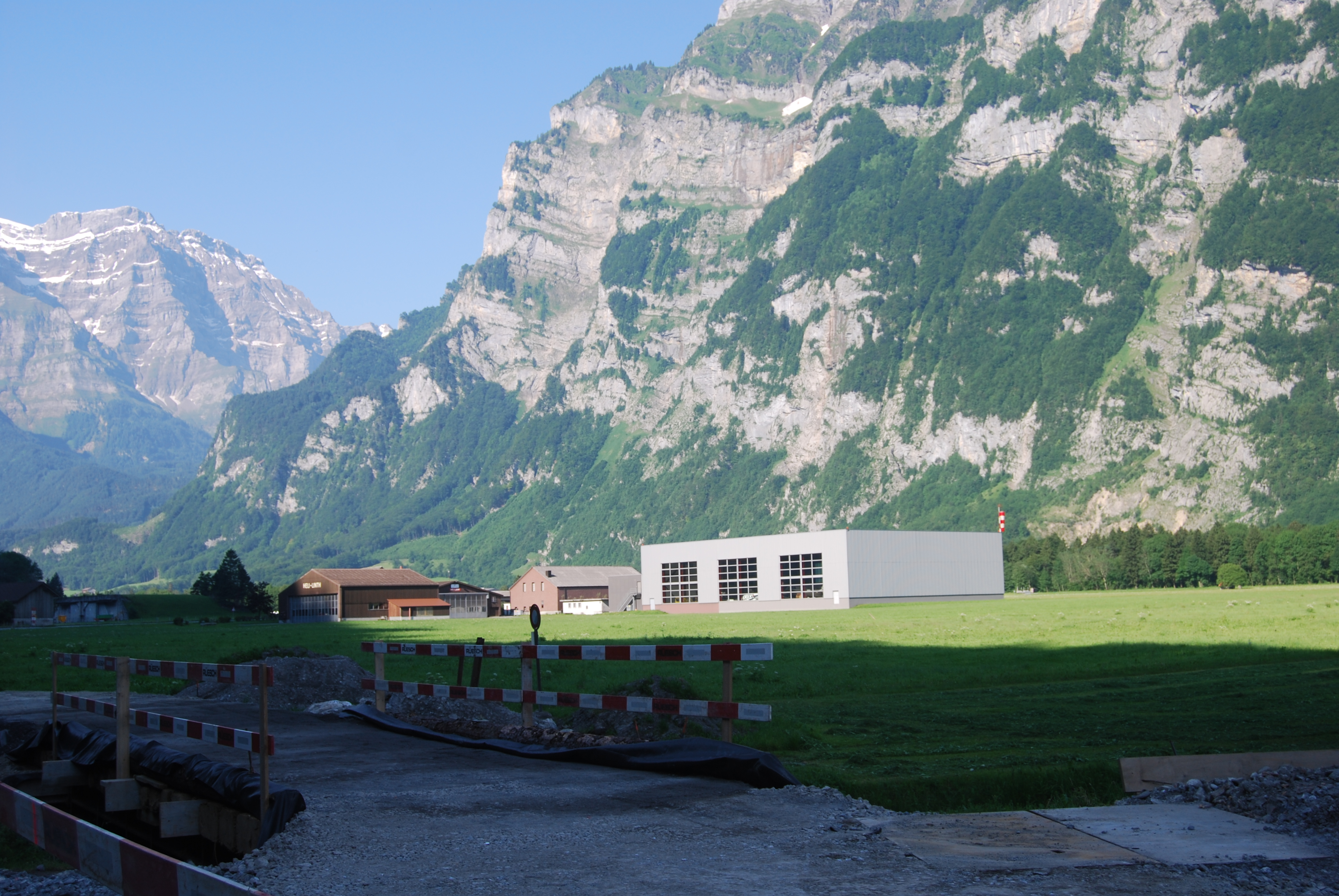 Airfield of Mollis, canton of Glarus, SwitzerlandEsperanto: Aerodromo de Mollis, Kantono Glaruso, Svislando